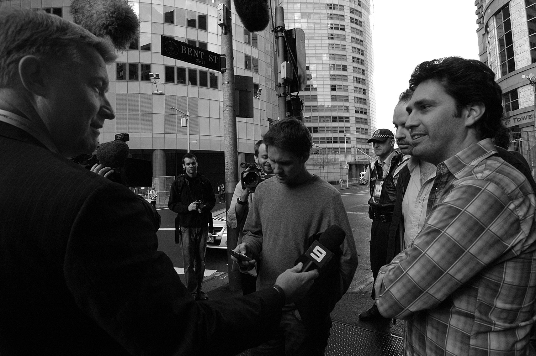 The Chaser being interviewed by TV Channel 9